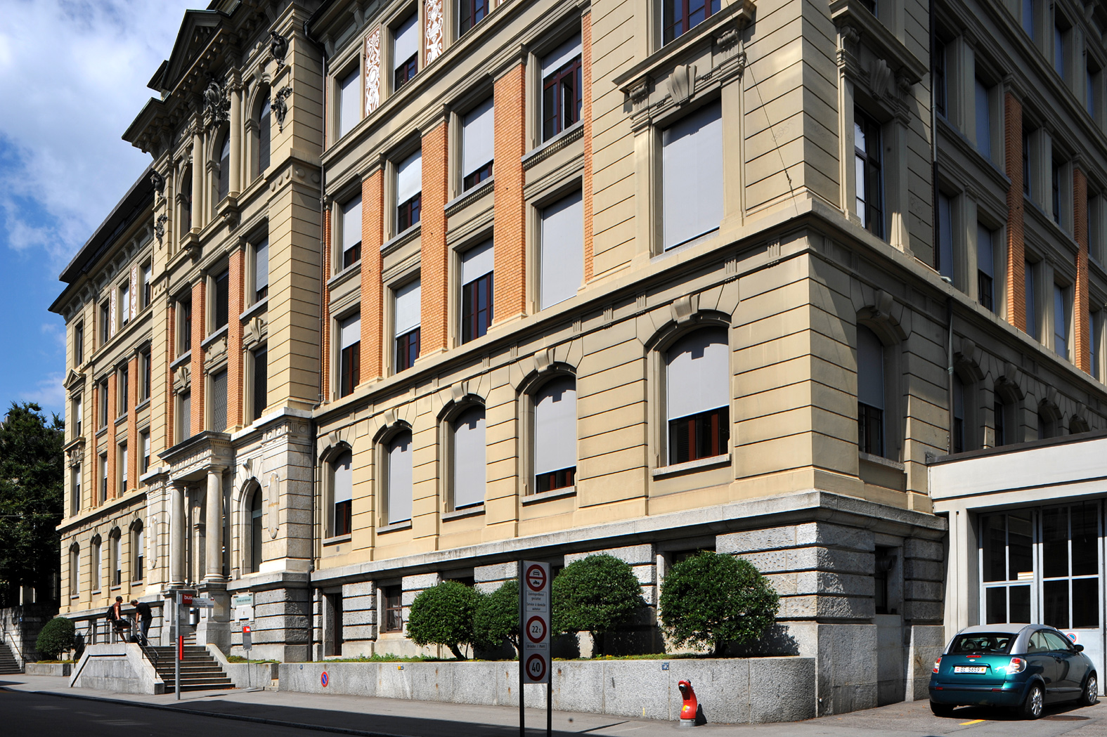 Berne University of Applied Sciences (BFH) Biel, building of the engineering and information technology departement, Quellgasse 21, Biel; Berne, Switzerland.